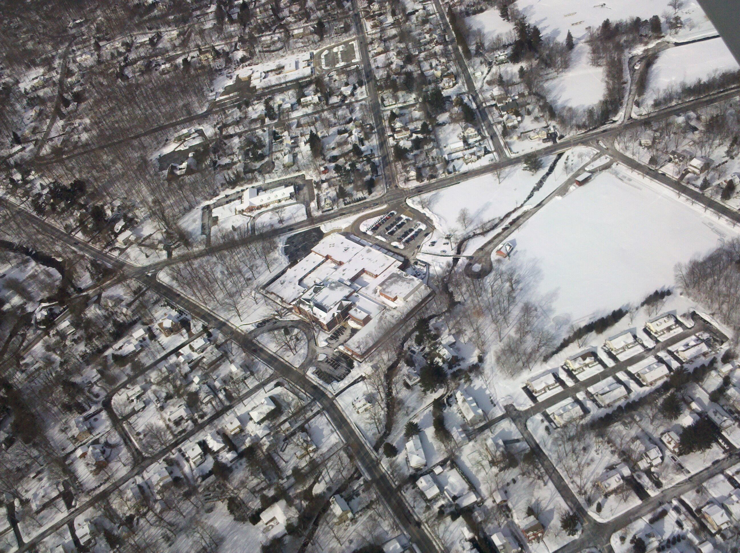 Allendale's Brookside Middle School from the airplane